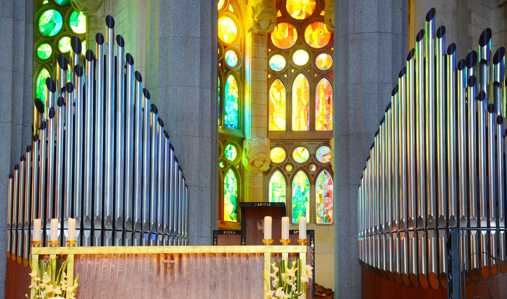 500px provided description: The altar of the Sagrada Familia [#sagrada familia barcelona spain europe colours colour altar church religion christianity jesus christ catholic]